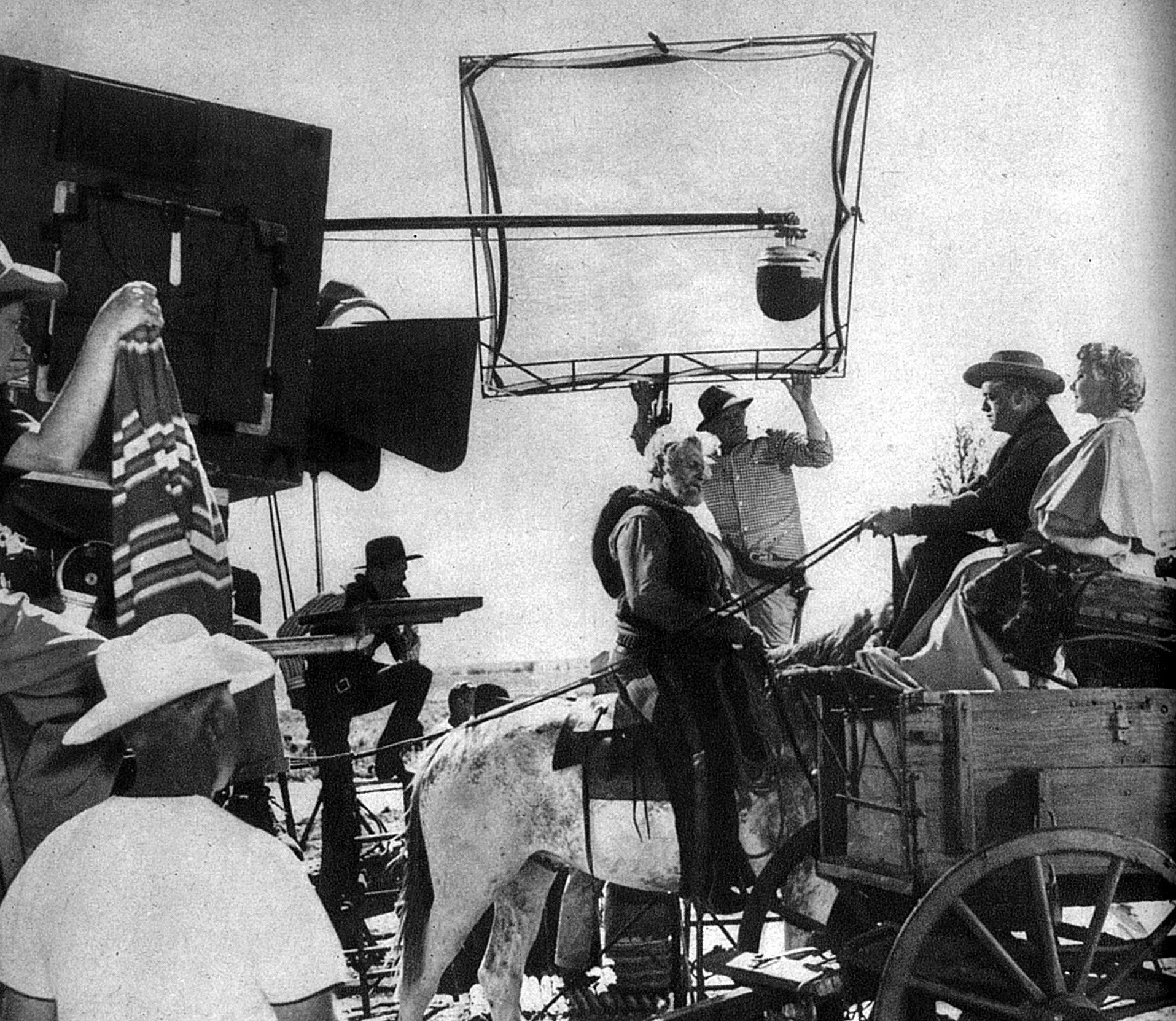 The filming of "Shane" from Eiga no Tomo (November 1952)